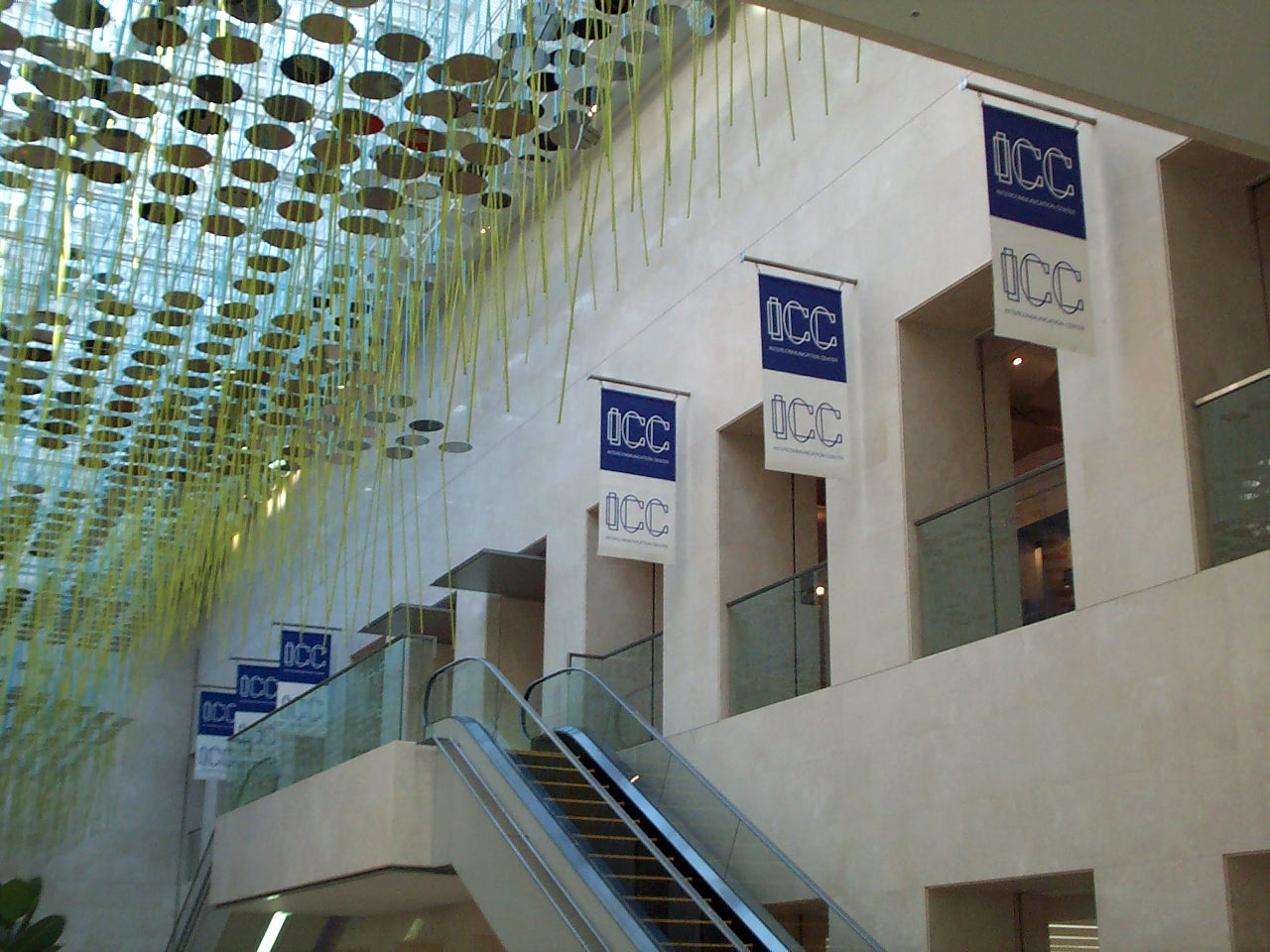 Entrance to the NTT InterCommunication Center, a digital & media art gallery, located in Tokyo Opera City, in Shinjuku.